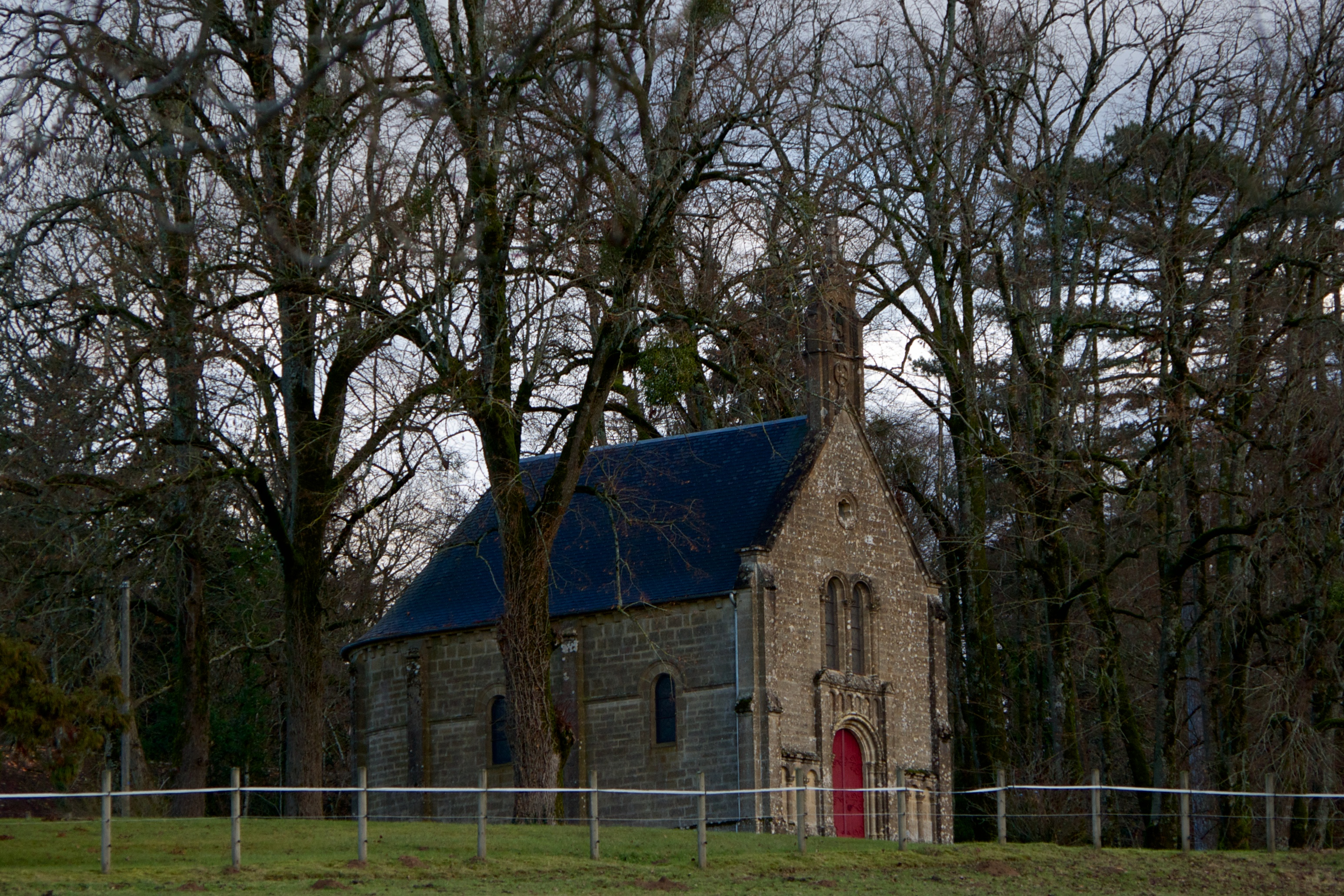 Castel of Saulières Chapel